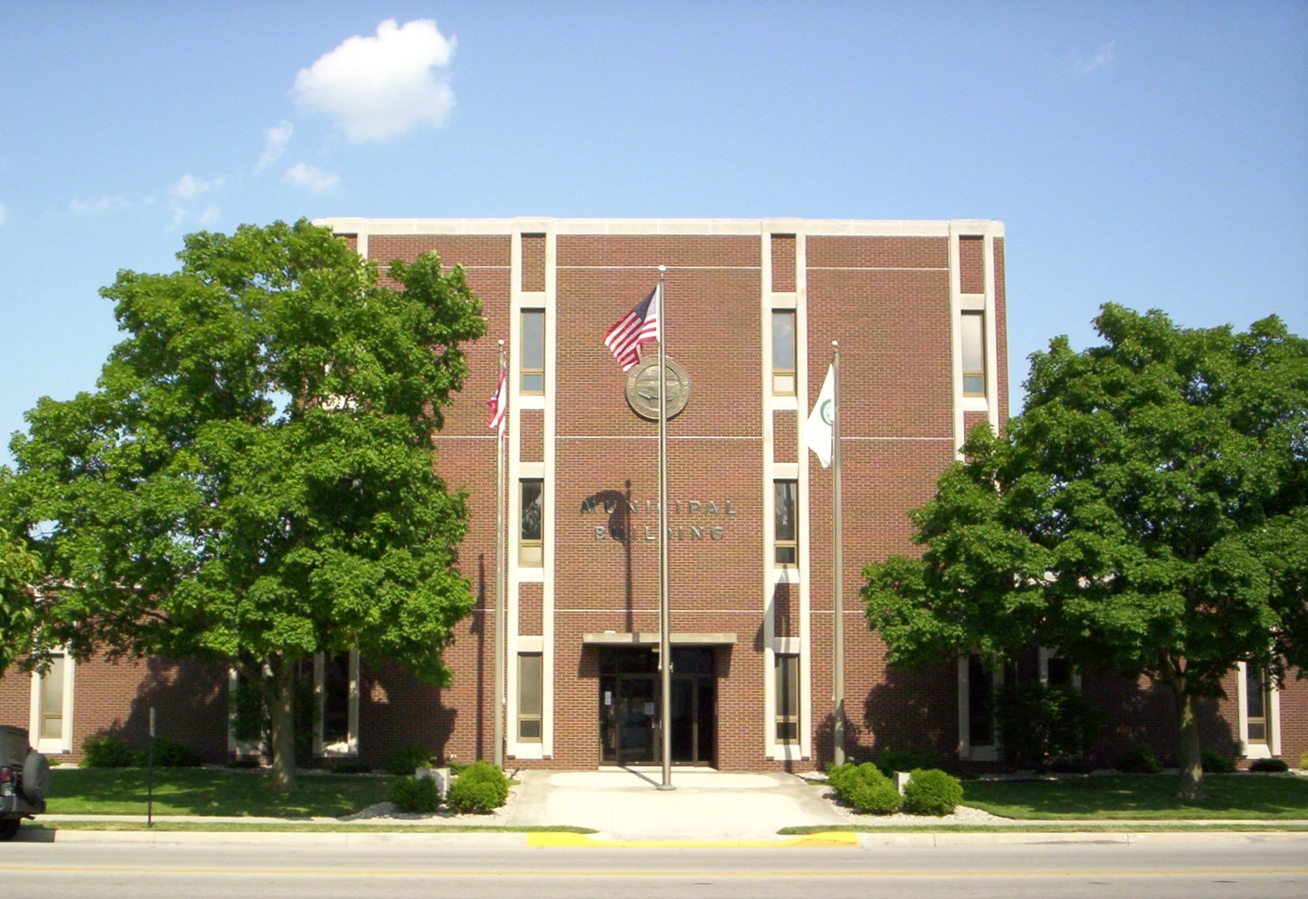 Fremont Municipal Building in downtown Fremont, Ohio, United States.